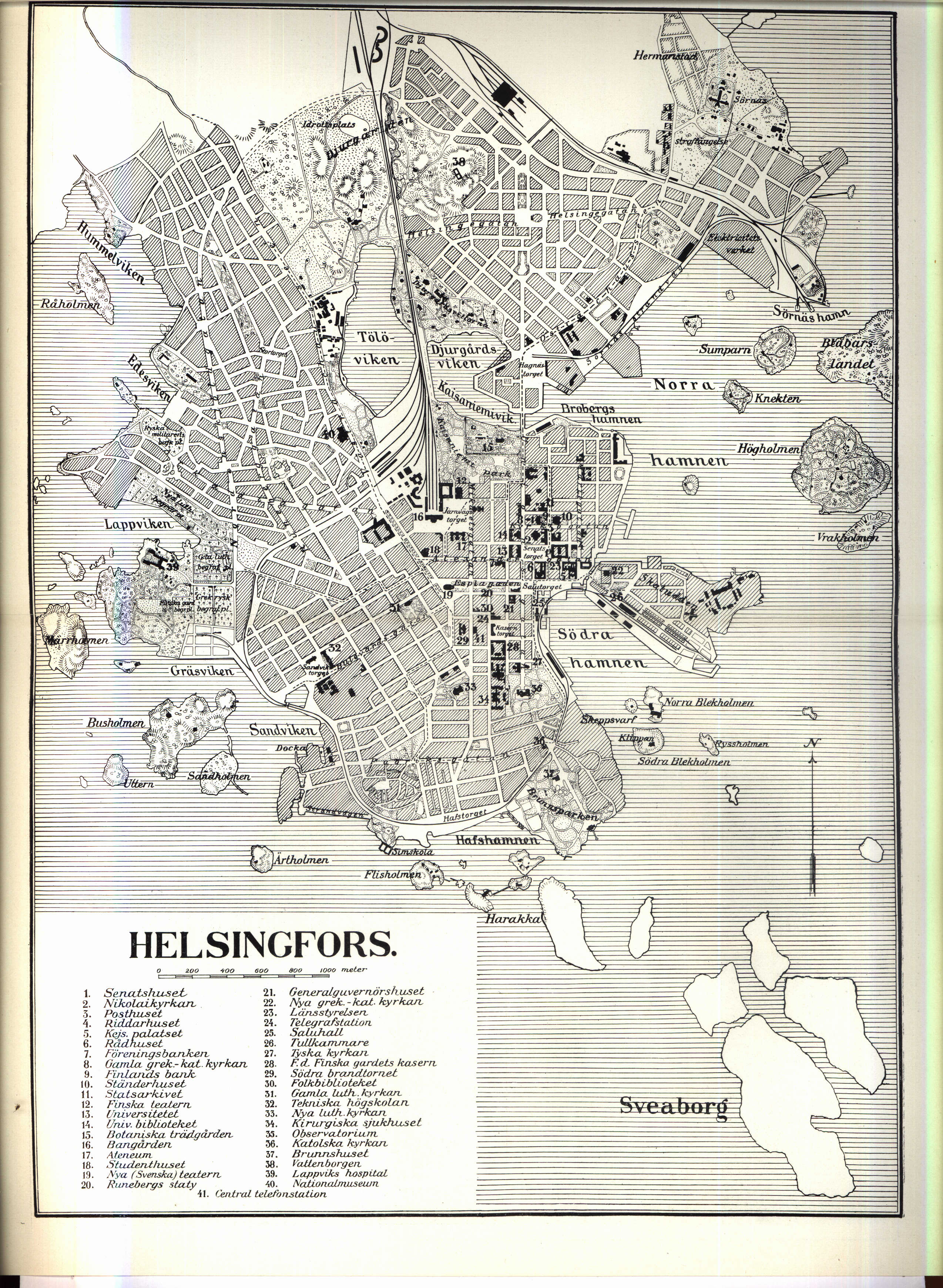 Map of Helsinki at the beginning of the 1900s